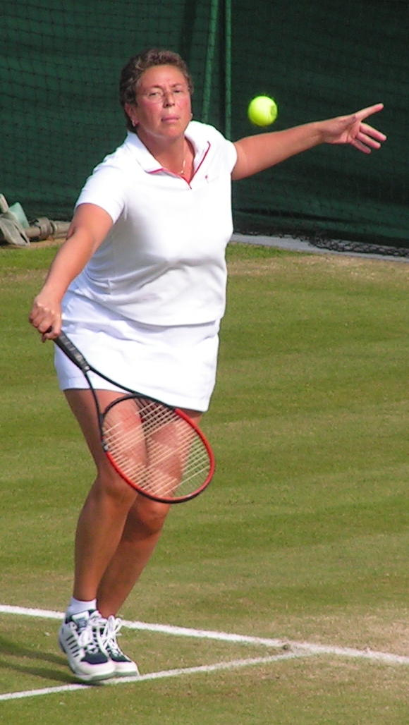 Jo Durie at the women doubles senior final at Wimbledon 2004